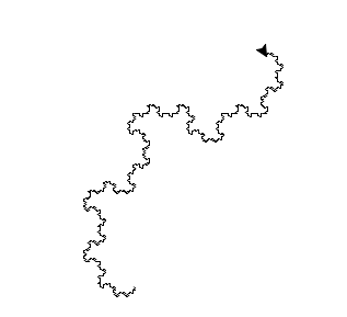 The Heighway Dragon with turn angle changed to 60deg, rendered with Python Turtle.